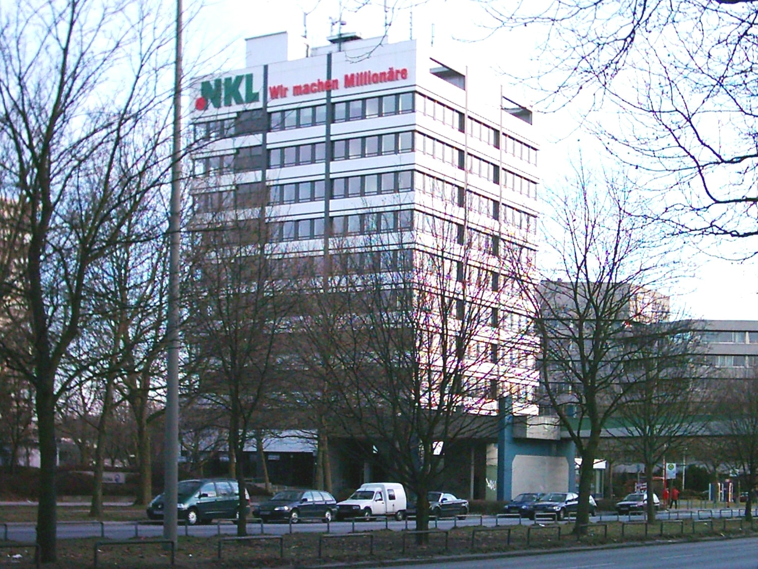 Nordwestdeutsche Klassenlotterie (NKL) is a german lottery company.